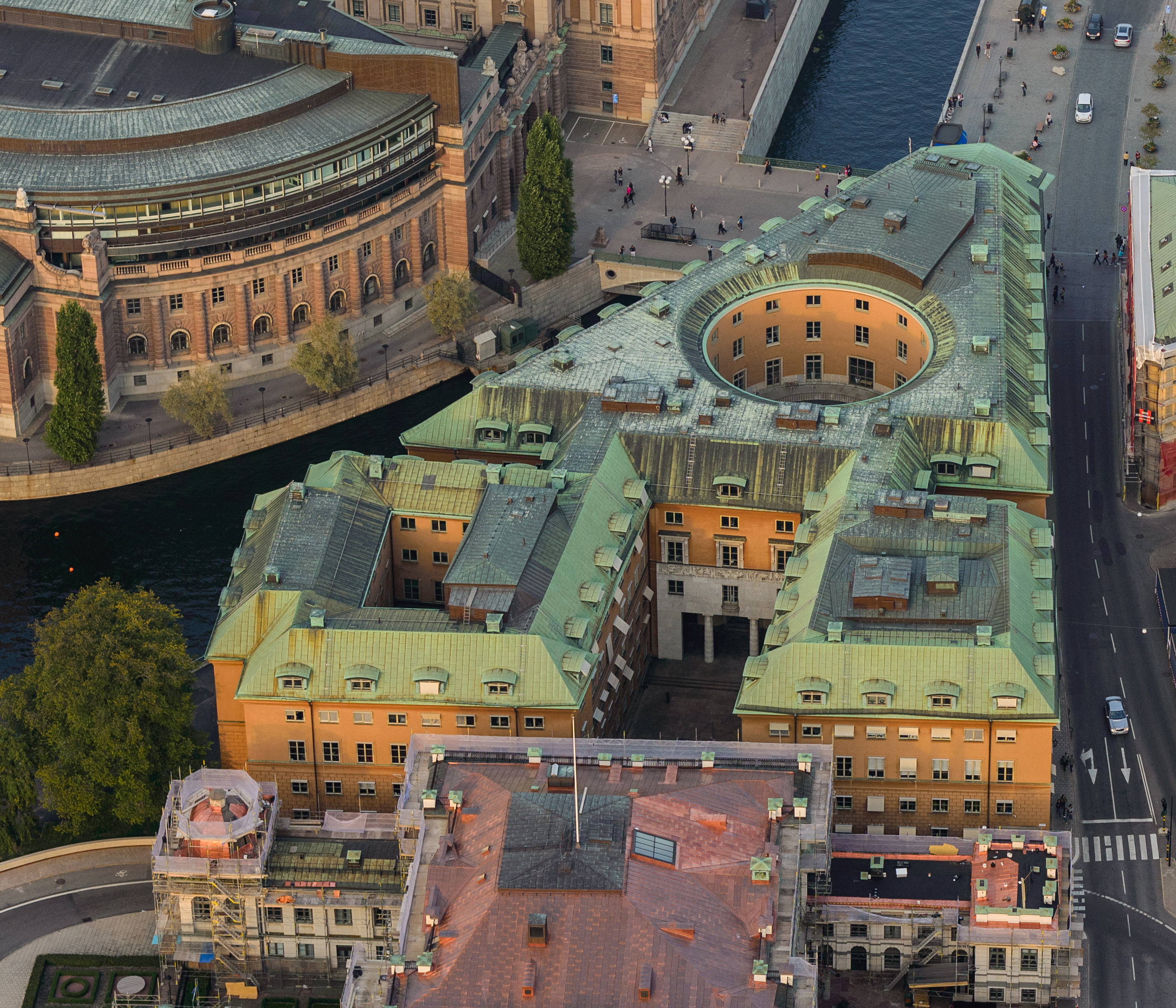 Kanslihuset ("The Chancellery House"), Stockholm.